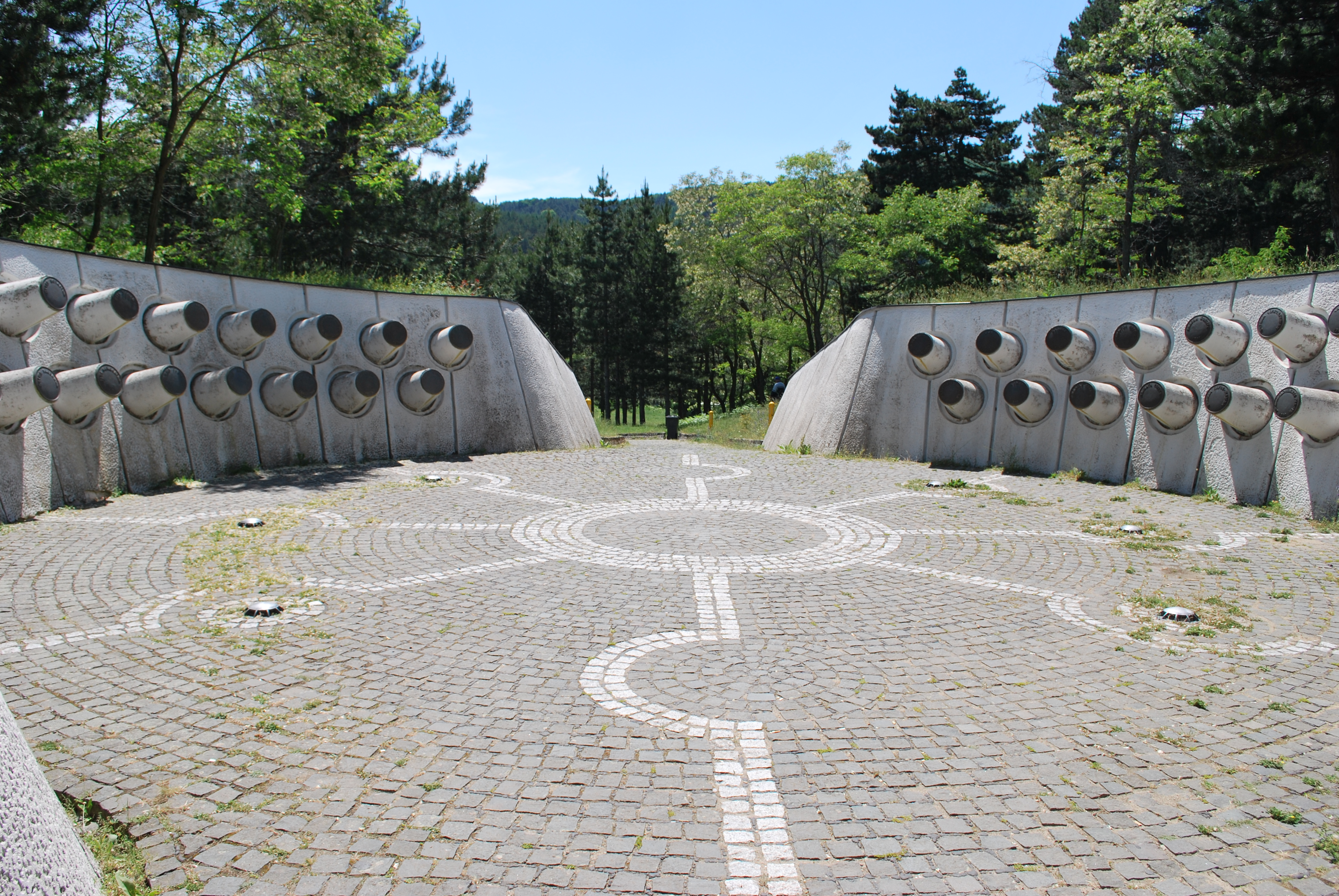 Makedonium in Kruševo, Macedonia